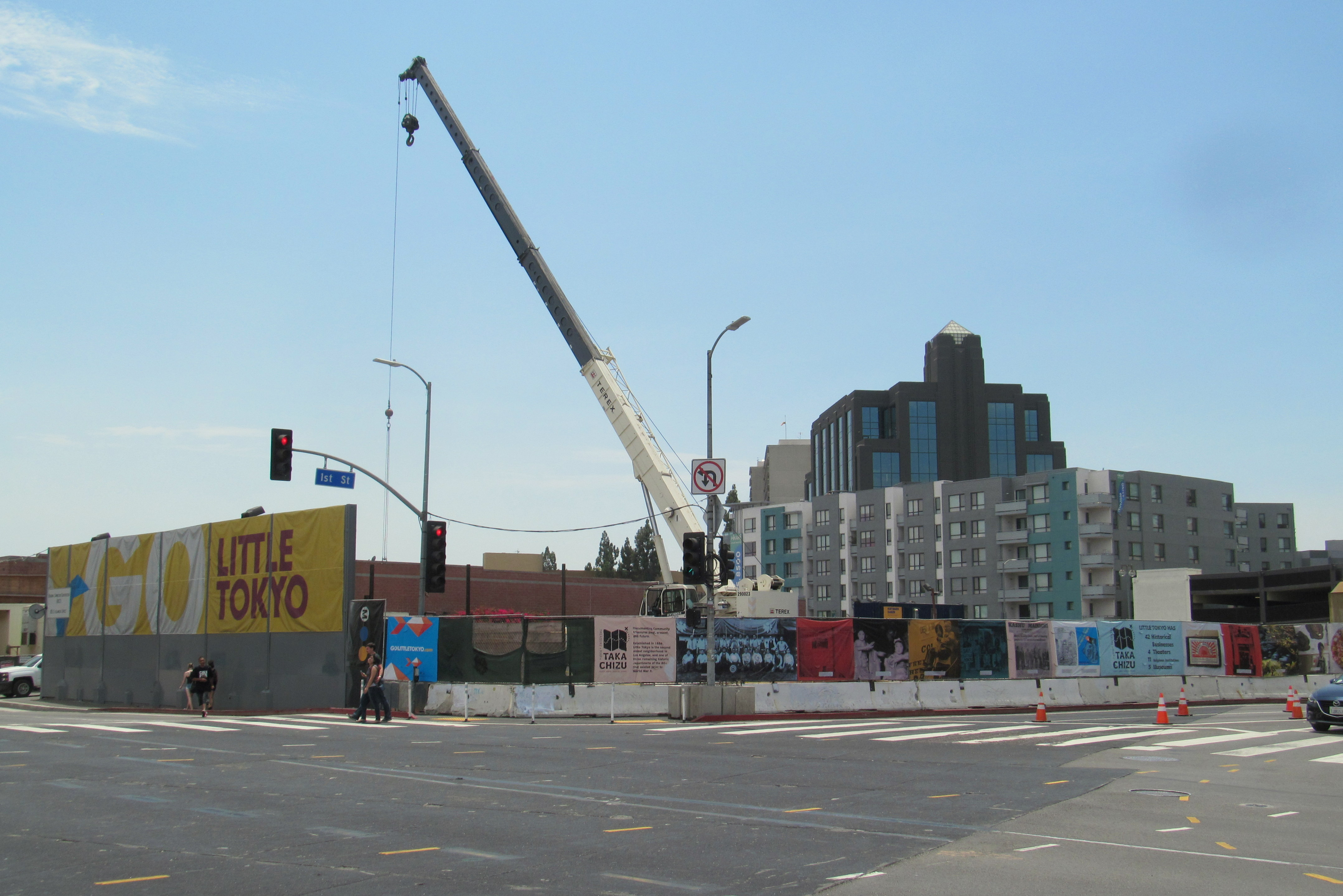 Construction of the new Little Tokyo/Arts District station in July 2017